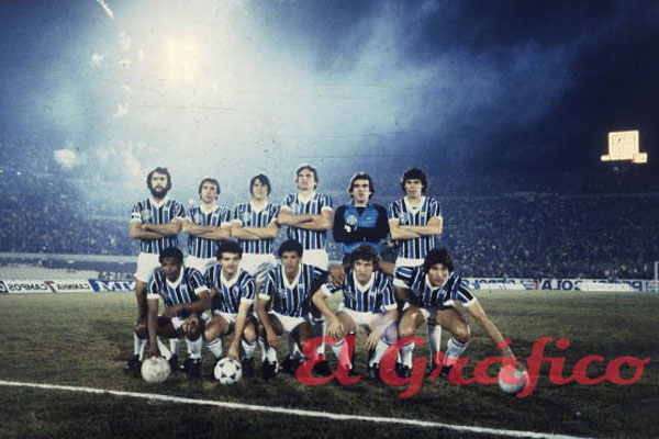 The Gremio FBPA team that won the first Copa Libertadores for the club.